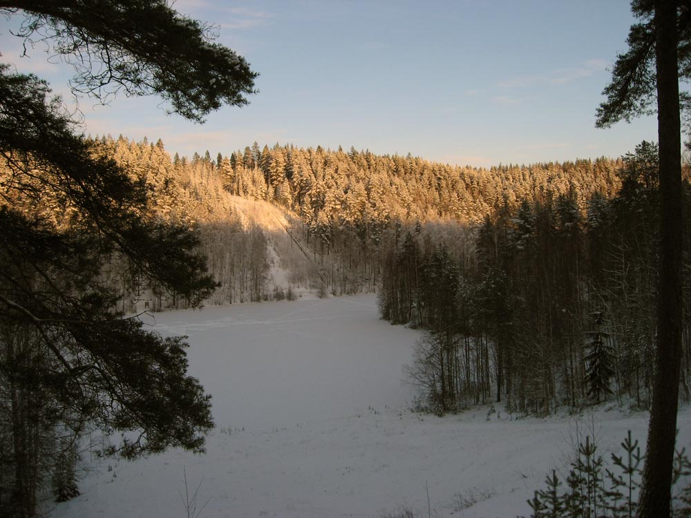 Lykynlampi lake and the slope of the old ski jumping hill in Joensuu, Finland